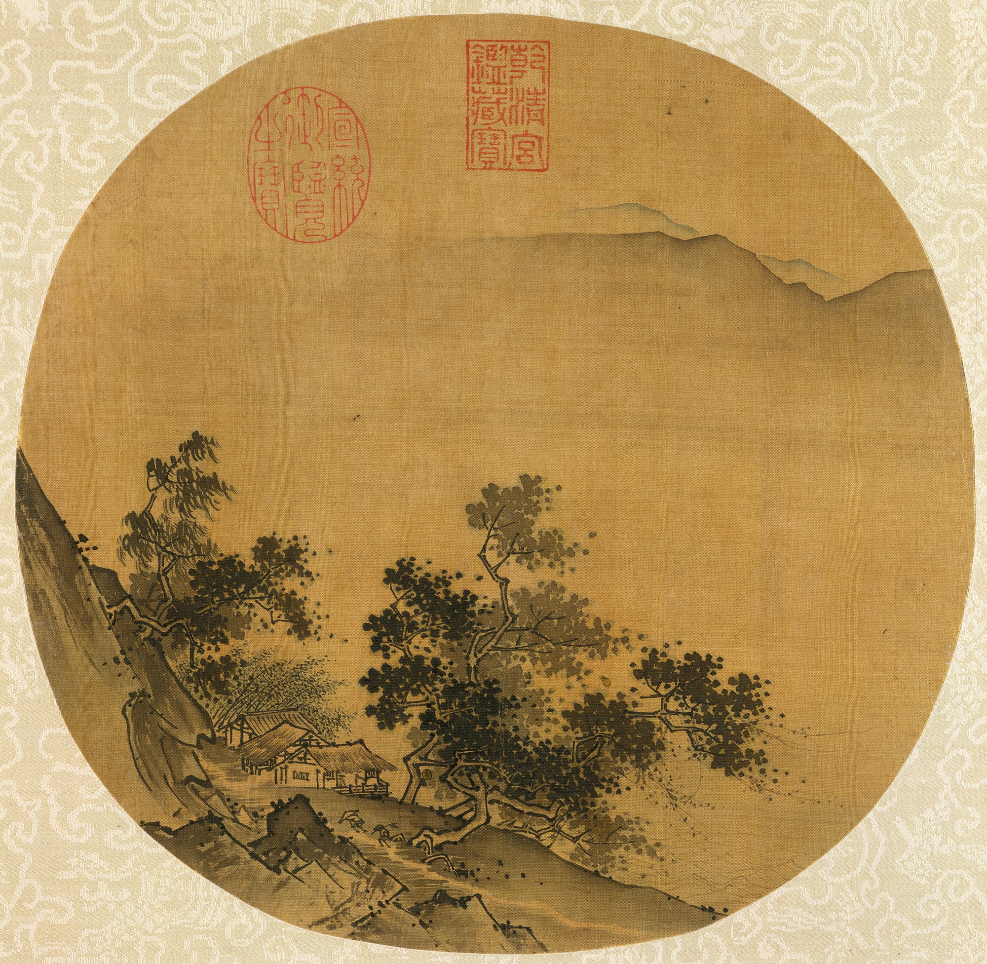 China; Fan mounted as an album leaf; Paintings